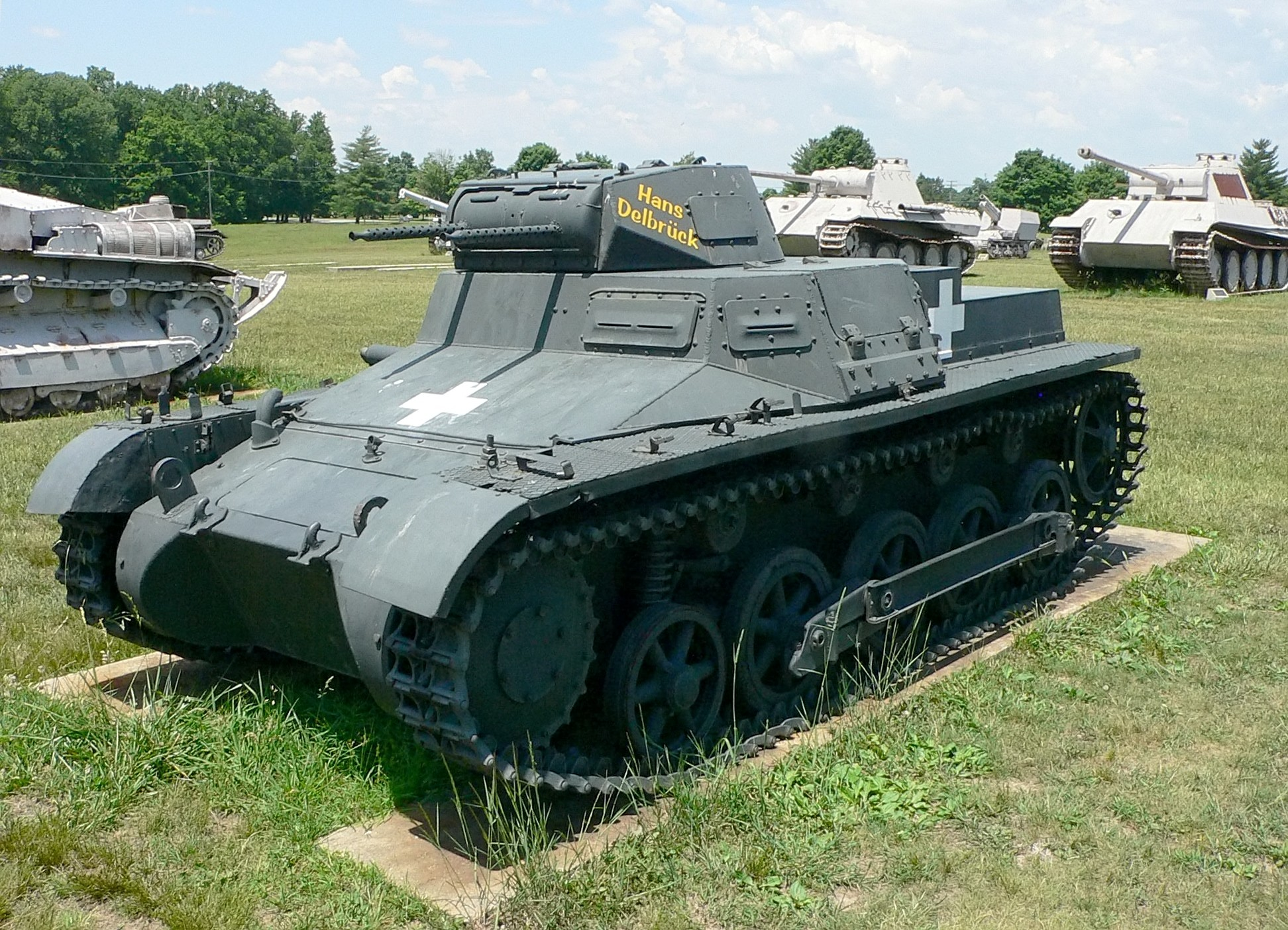 Picture taken by myself, Mark Pellegrini, at the United States Army Ordnance Museum (Aberdeen Proving Ground, MD) on June 12, 2007.